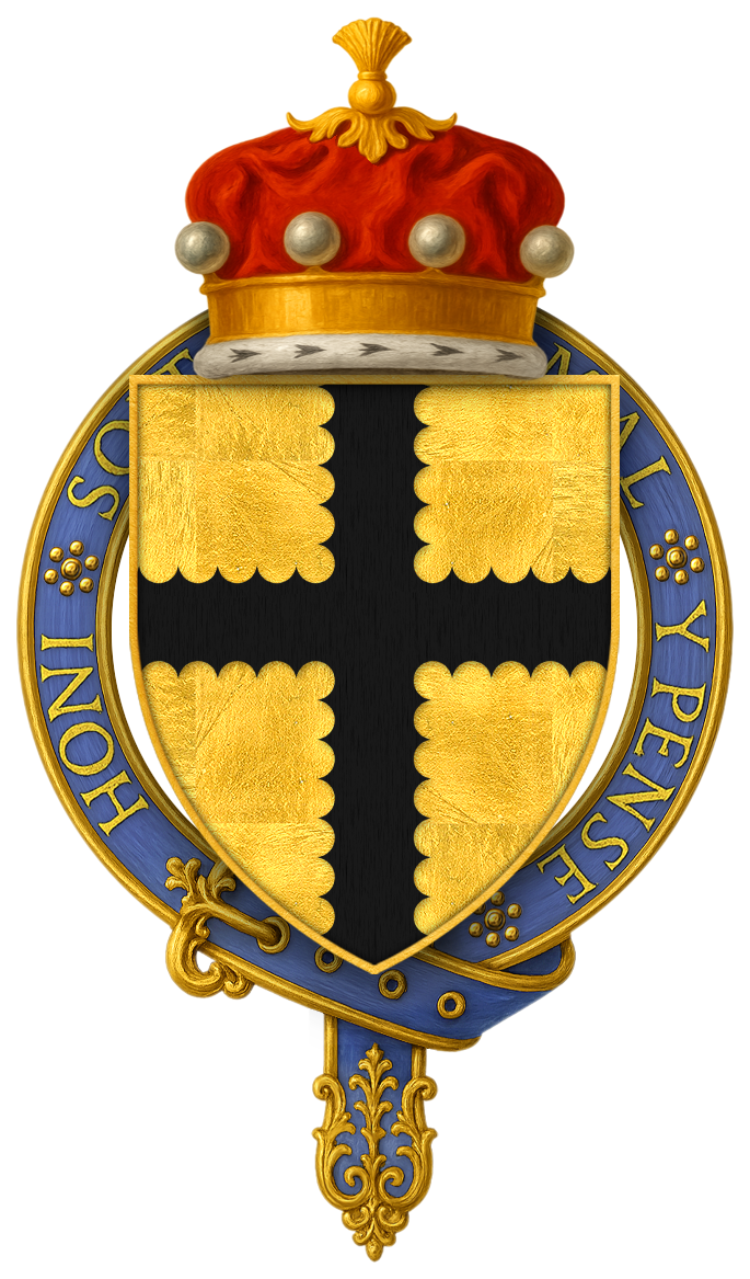 Coat of Arms of Sir John de Mohun, 2nd Baron Mohun, KG “ Mohun, Sire John de, of Dunster, banneret, baron 1299… bore at the battle of Falkirk 1298, and at the siege of Caerlaverock 1300, or, a cross engrailed sable… his son Sir John (father of Sir John, 2nd Baron, K.G., and a founder) also bore it, with a label (3) gules… ” FOSTER, Joseph, Some Feudal Coats of Arms from Heraldic Rolls 1298-1418, London: James Parker & Co., 1902.